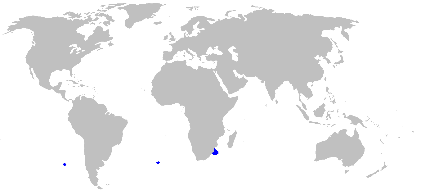 Distribution map for Heteroscymnoides marleyi